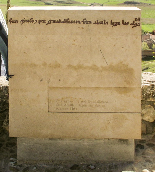 Memorial stone, Juan Ruiz, Arcipreste of Hita, Guadalajara, Spain.